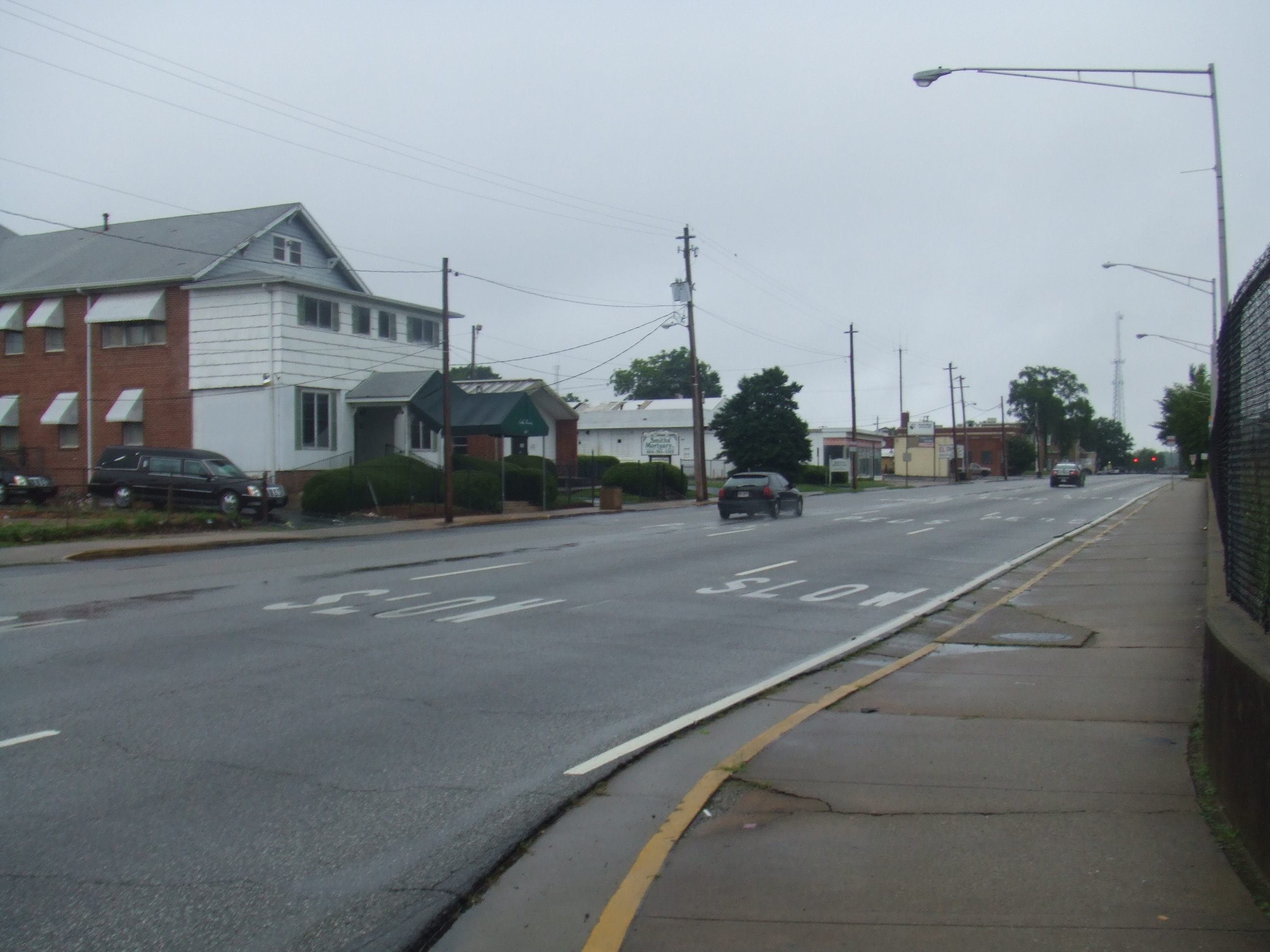 East Point, Georgia, as viewed from Main Street.